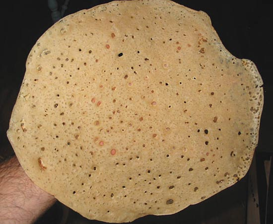 Somali canjeero (injera).